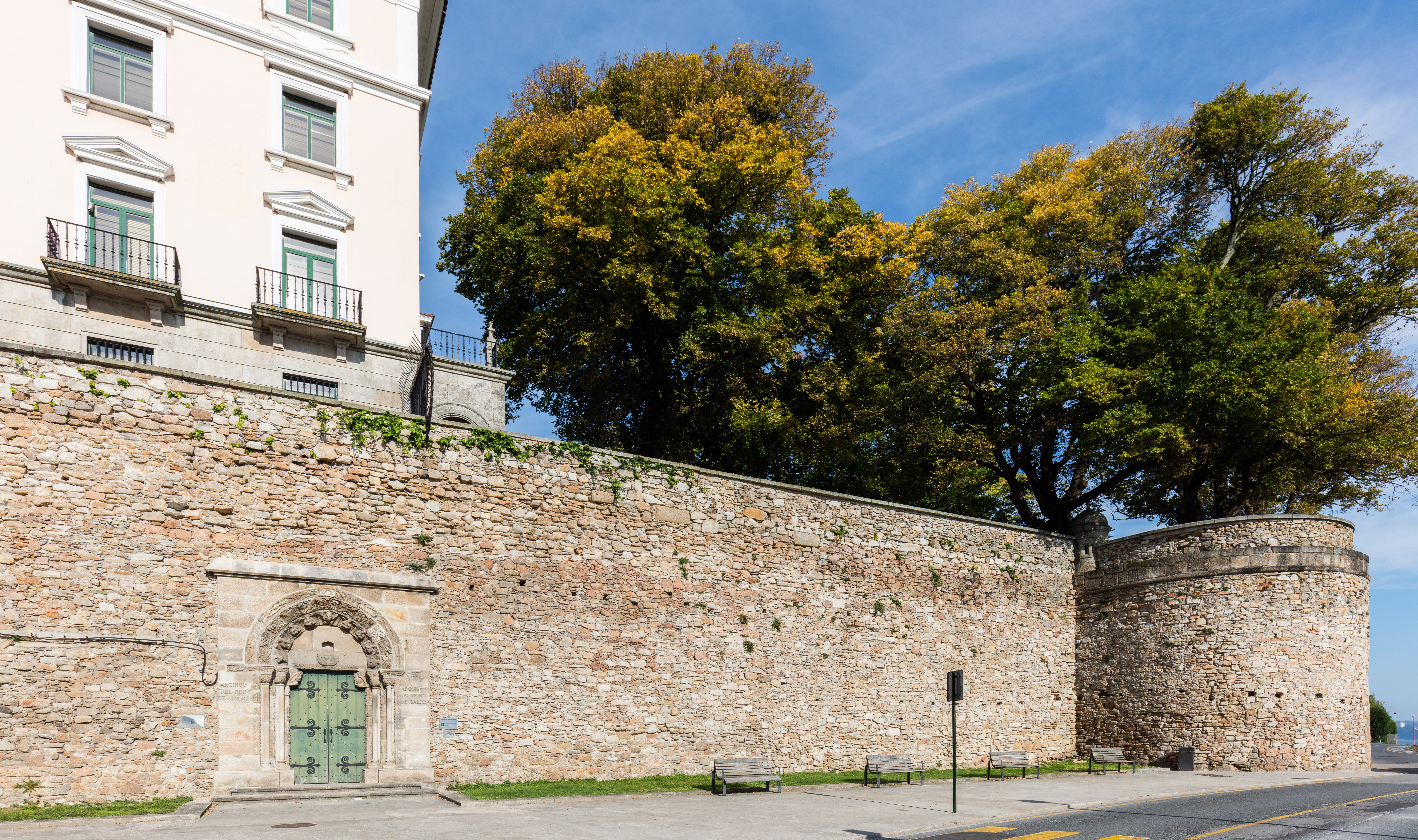 Walls, La Coruña, Spain